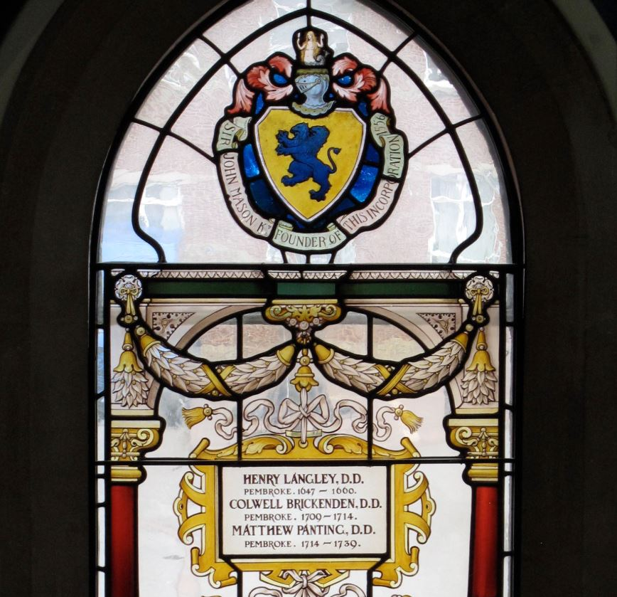 Photograph of stained glass by Charles Eamer Kempe, with the name of Henry Langley engraved.